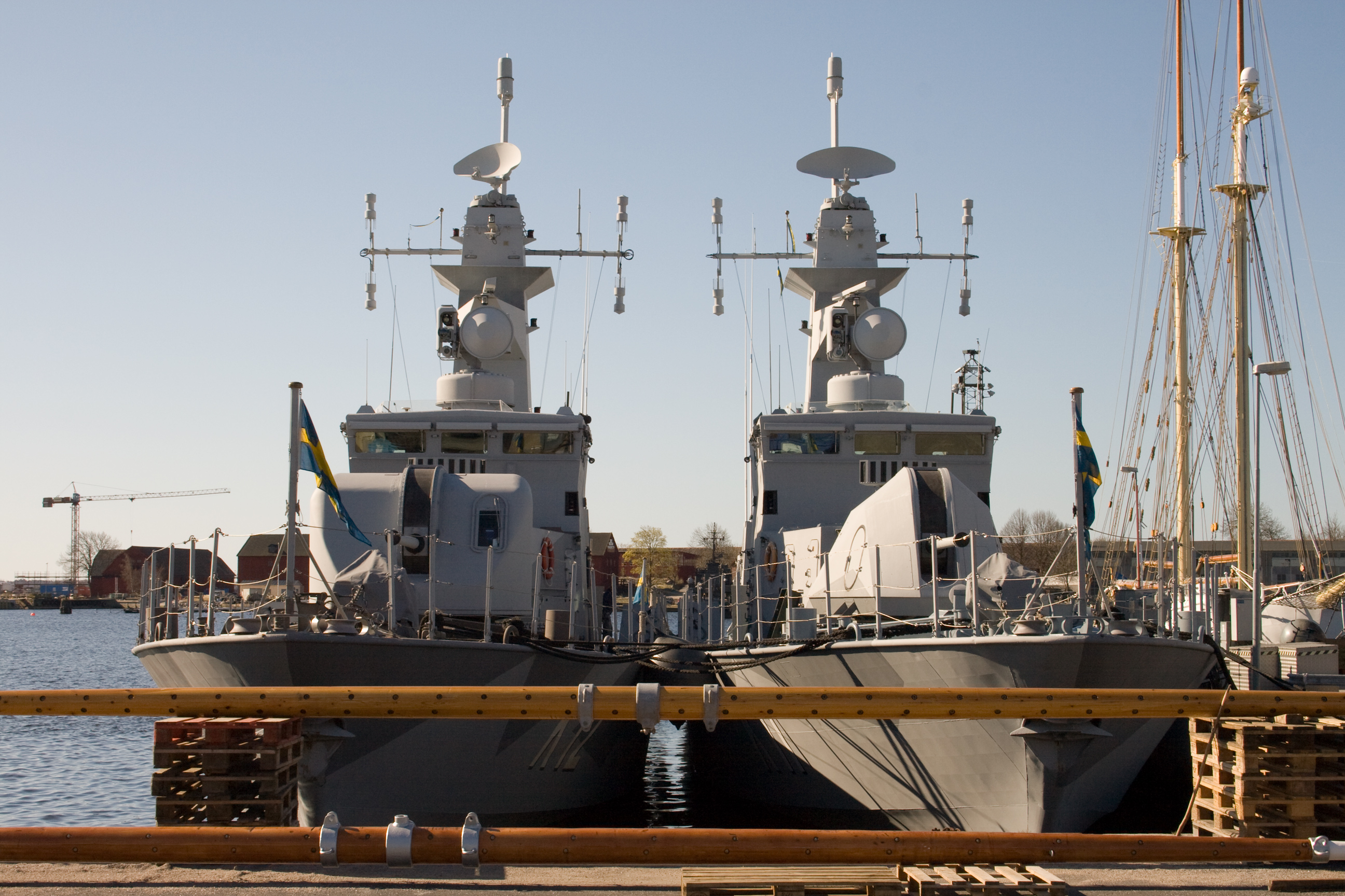 HMS Malmö (K12) and HMS Stockholm (K11) at Karlskrona naval base a sunny Monday.